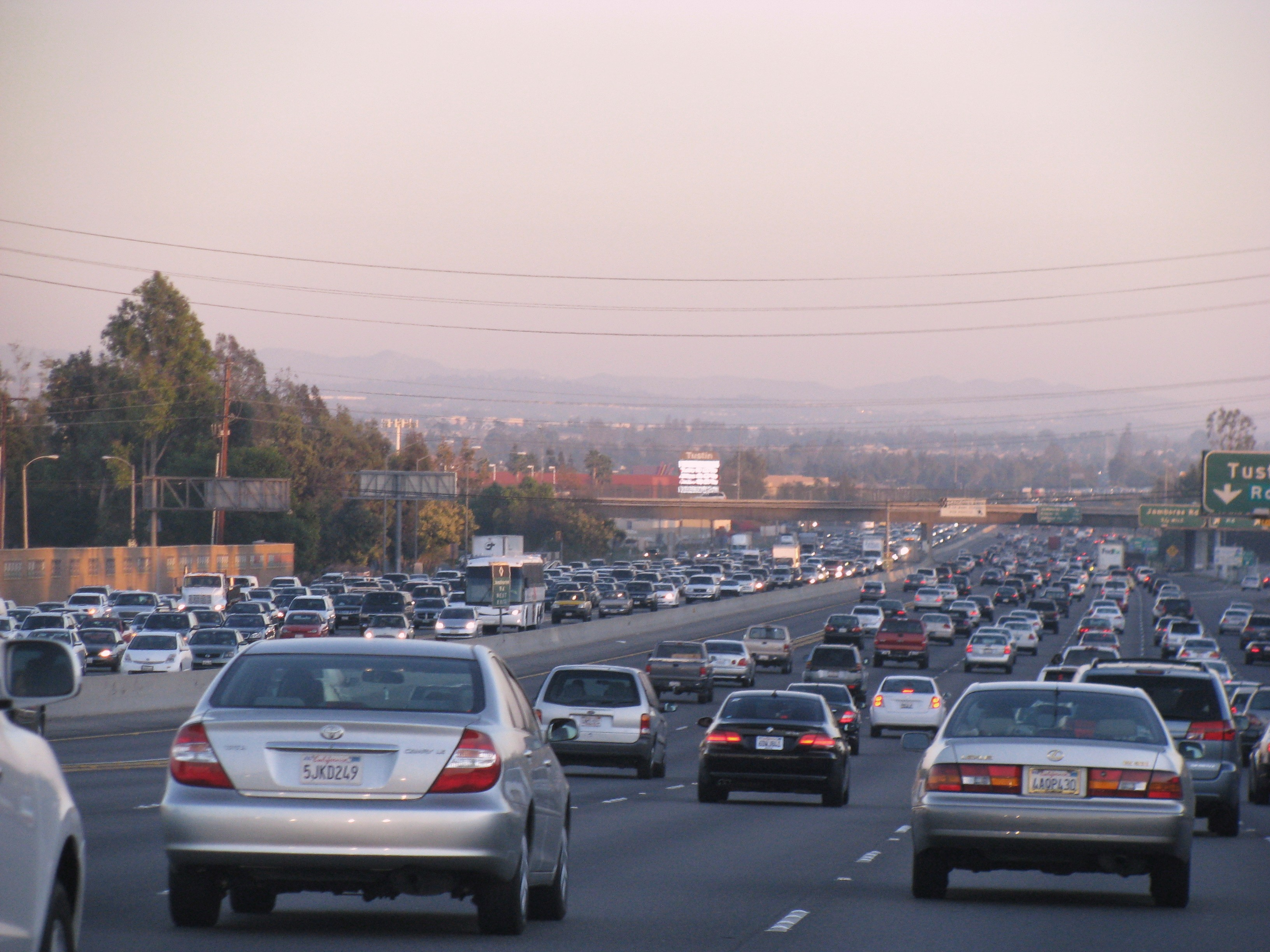 This is a typical Southern California rush hour's crappy traffic — here an freeway in Orange County.